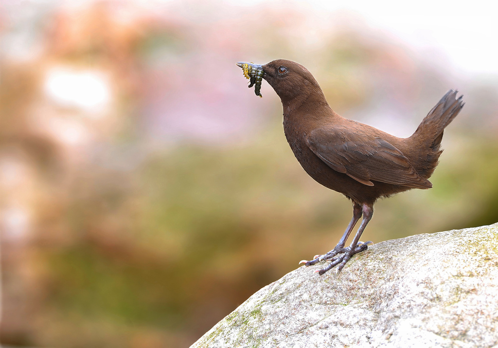 Brown Dipper - (Cinclus pallasii)